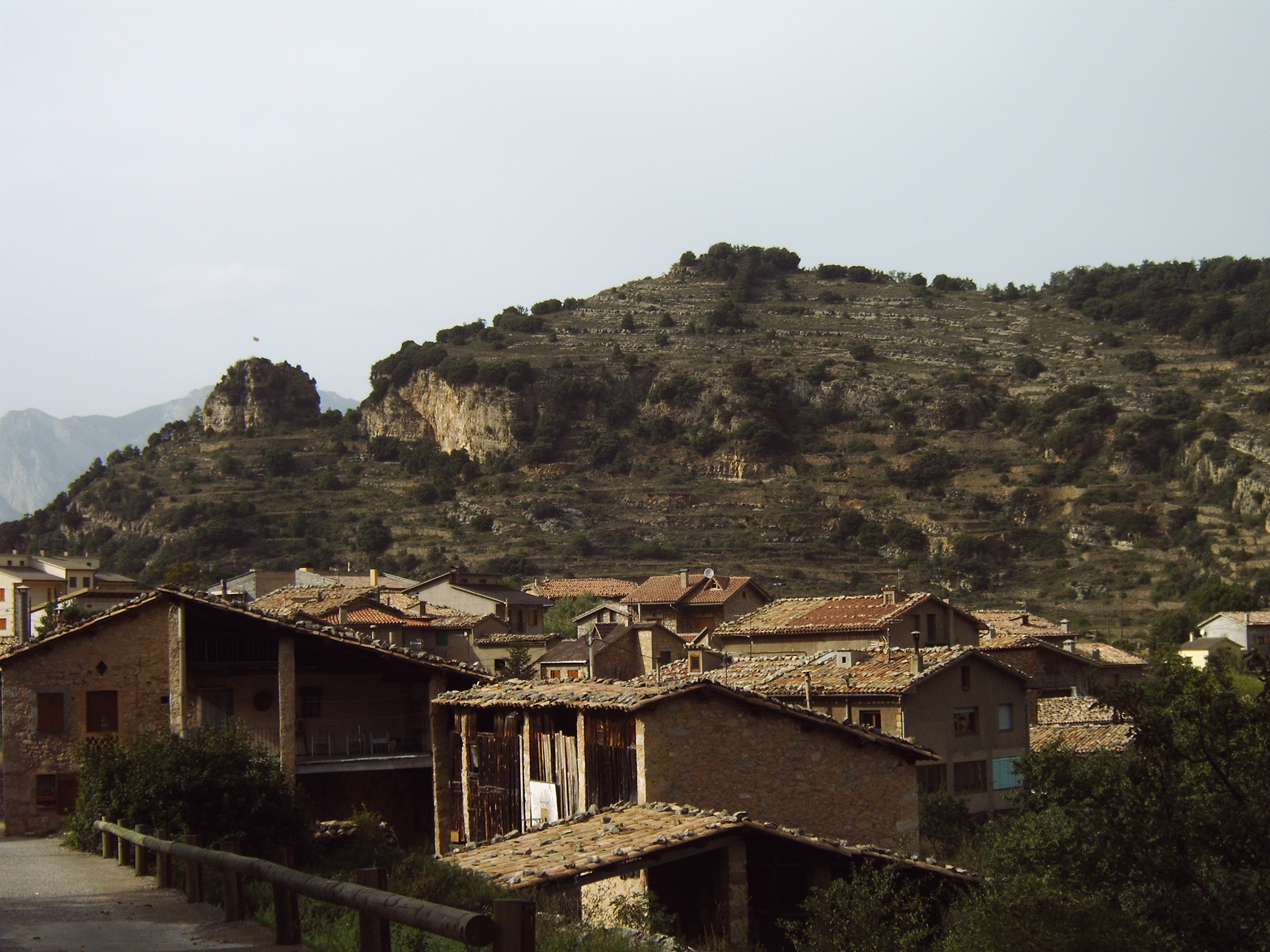 Partial photo of St.Julià de Cerdanyola (Berguedà)